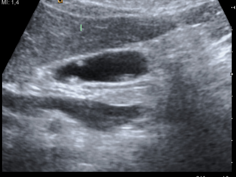 Gall bladder polyps, 3-7mm, asymptomatic 45/female.